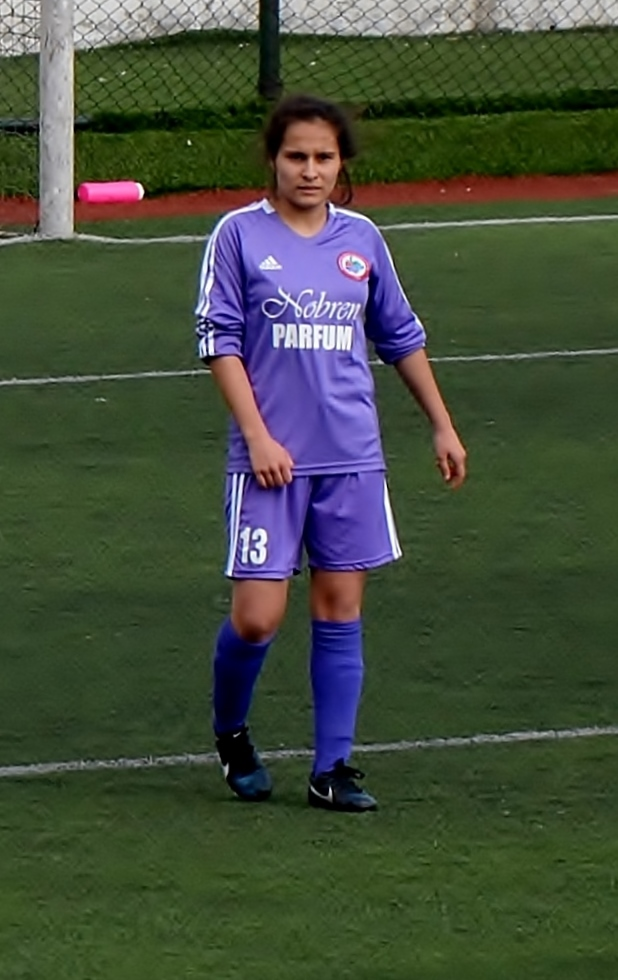 Rabia Civan playing for Kdz. Ereğlispor in the 2014-15 season